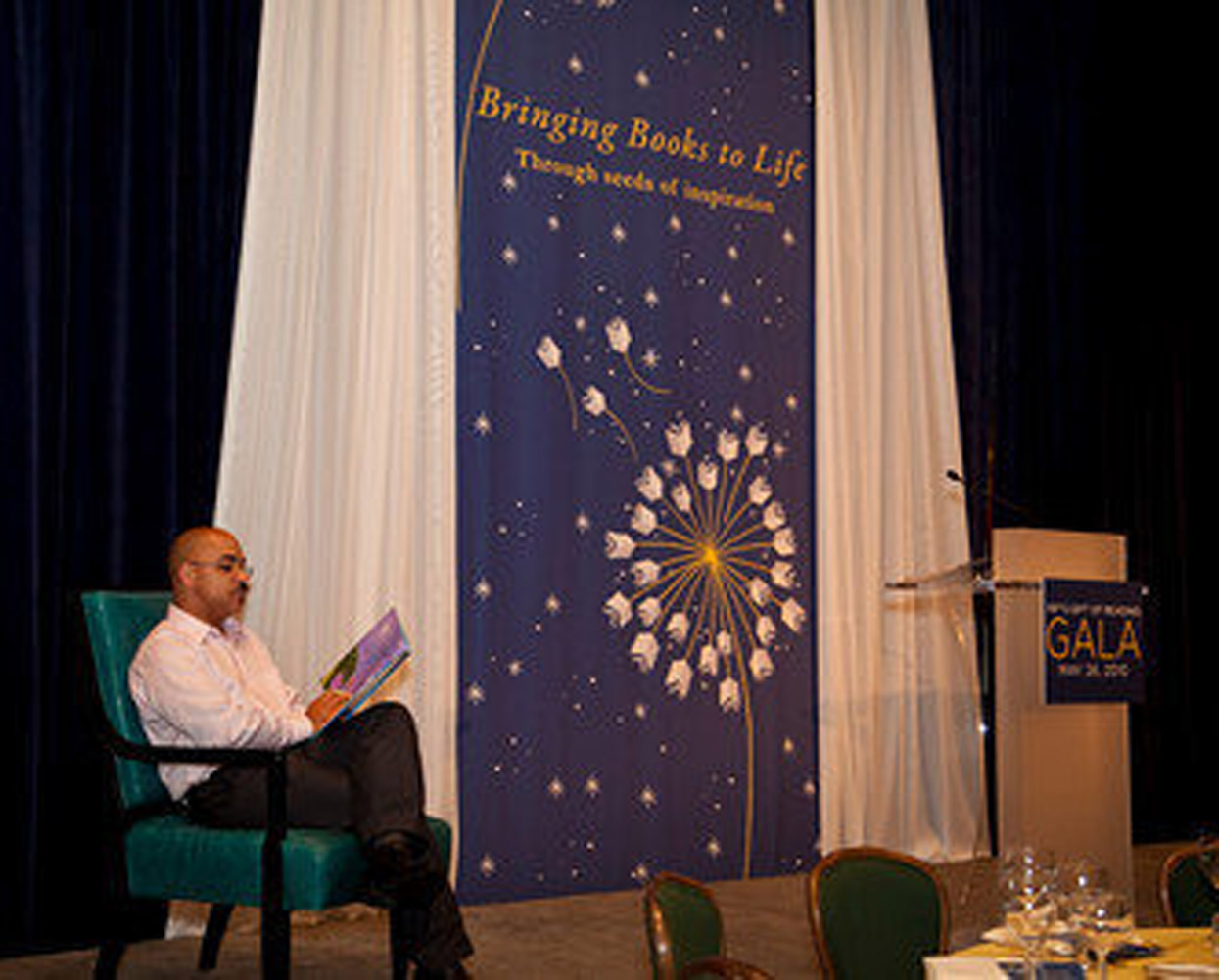 Dale Allender speakig at the Reading is Fundamental Annual Gala